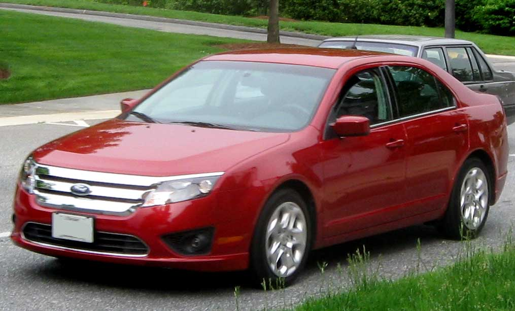 2010 Ford Fusion photographed in College Park, Maryland, USA.